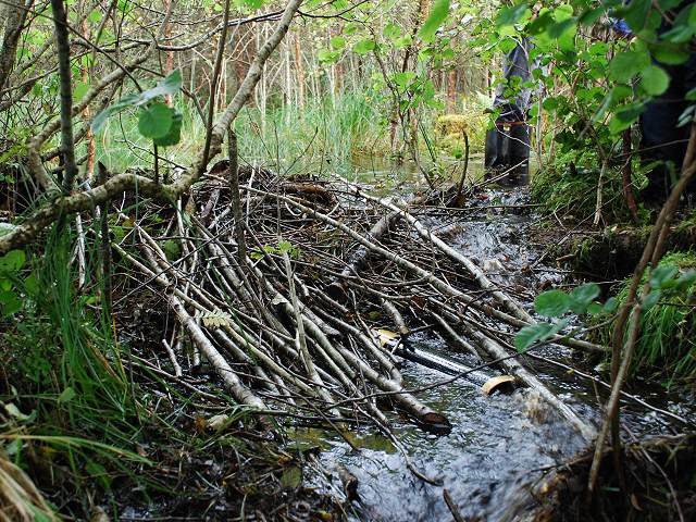 Beaver dam. This is the first beaver dam to have been built in the wild in Scotland for the last 400 years. The scale of the structure can be gauged from the welly-booted leg to the right. The precise location has been omitted at the request of the Scottish Beaver Trial. Compare the same site four months later: 1623430.